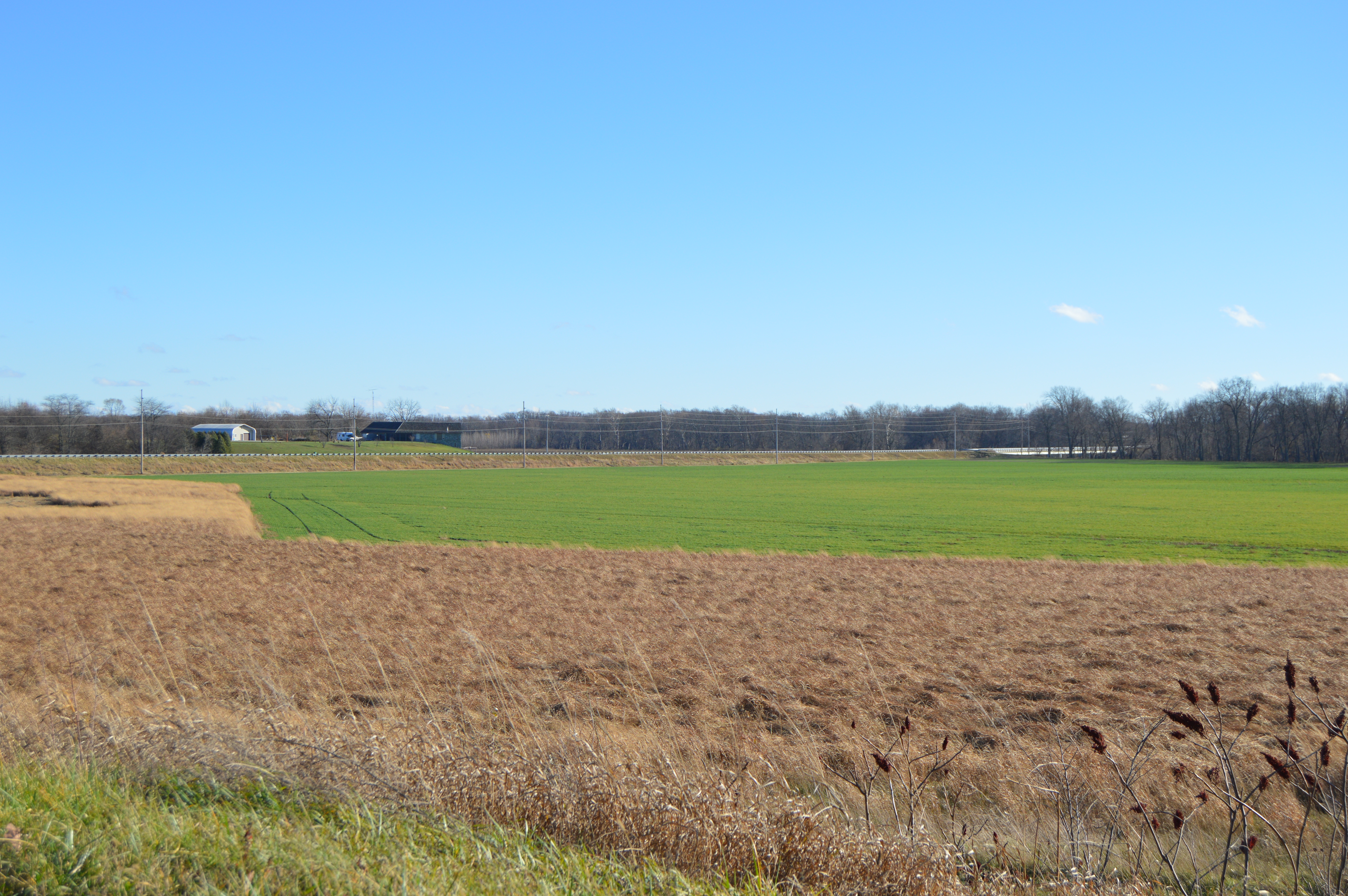 Looking southeast from Roland Road over wheat fields just south of The Bend in Delaware Township, Defiance County, Ohio, United States.